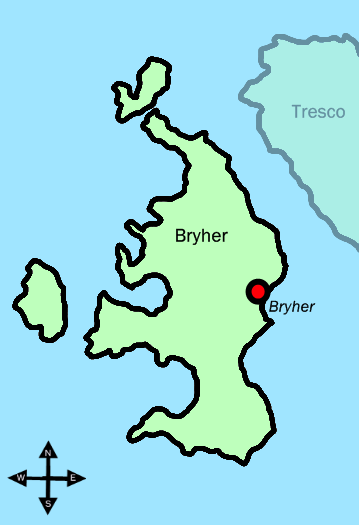 A map of the Scilly island of Bryher.